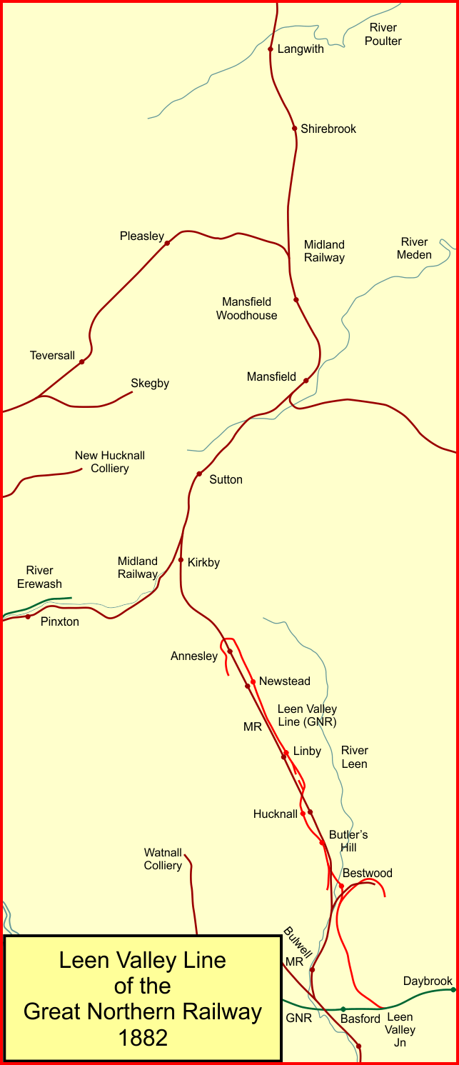 System map of the Leen Valley railway line, Nottinghamshire, England, of the Great Northern Railway in 1882